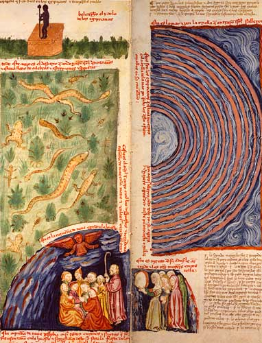 The Israelites' flight. This appears in a cycle of eight episodes which begins and ends on fol. 68v. The Red Sea is divided into twelve paths, one for each of the twelve tribes, in accordance with the Targum Pseudo-Jonathan on Exodus XIV: 15-21. The paths form concentric semicircles. Above and to the left the Hebrews enter from Egypt, to leave at the bottom left near the Wilderness of Shur. The earliest evidence for this image is found in the Dura-Europos synagogue, but it also appears in the Sarajevo Haggadah (fol. 28r) and in Christian art. In Arragel's commentary to verse 29 the twelve paths are cited as a fifth miracle which took place during the crossing of the Red Sea.